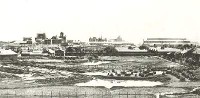 Yongli Soda Plant 1920